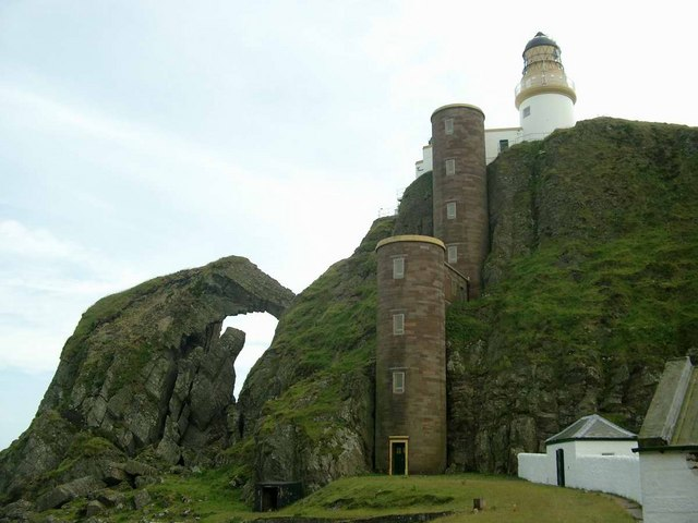 "The lighthouse on Sanda Island, near Mull of Kintyre. Lighthouse, Sanda Seen from the sea to the south, this lighthouse on it rock, with natural arch, looks like a ship, hence its name "The Ship" on marine charts.